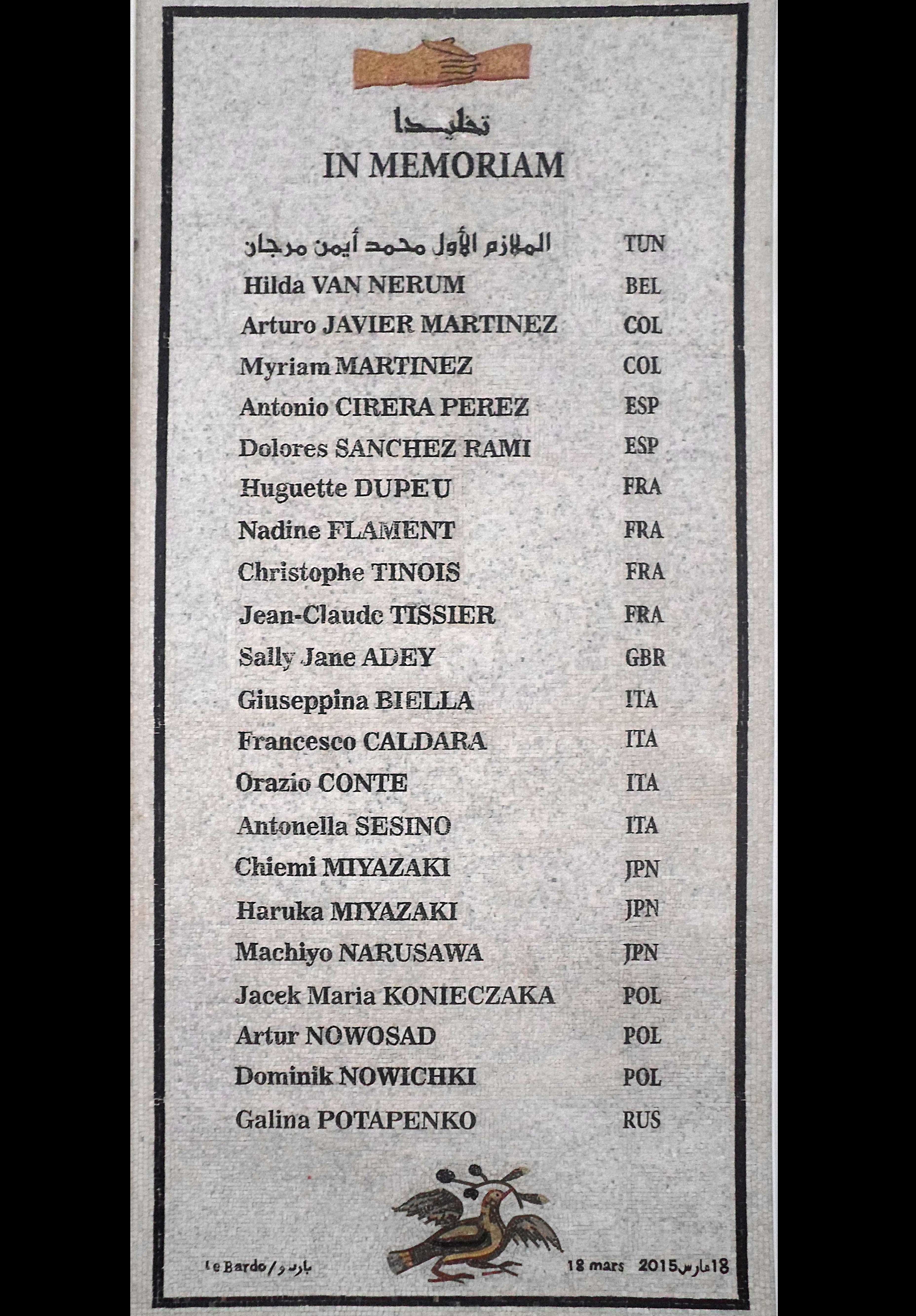 Plaque listing victimes of the 2015 attack at the Bardo National Museum